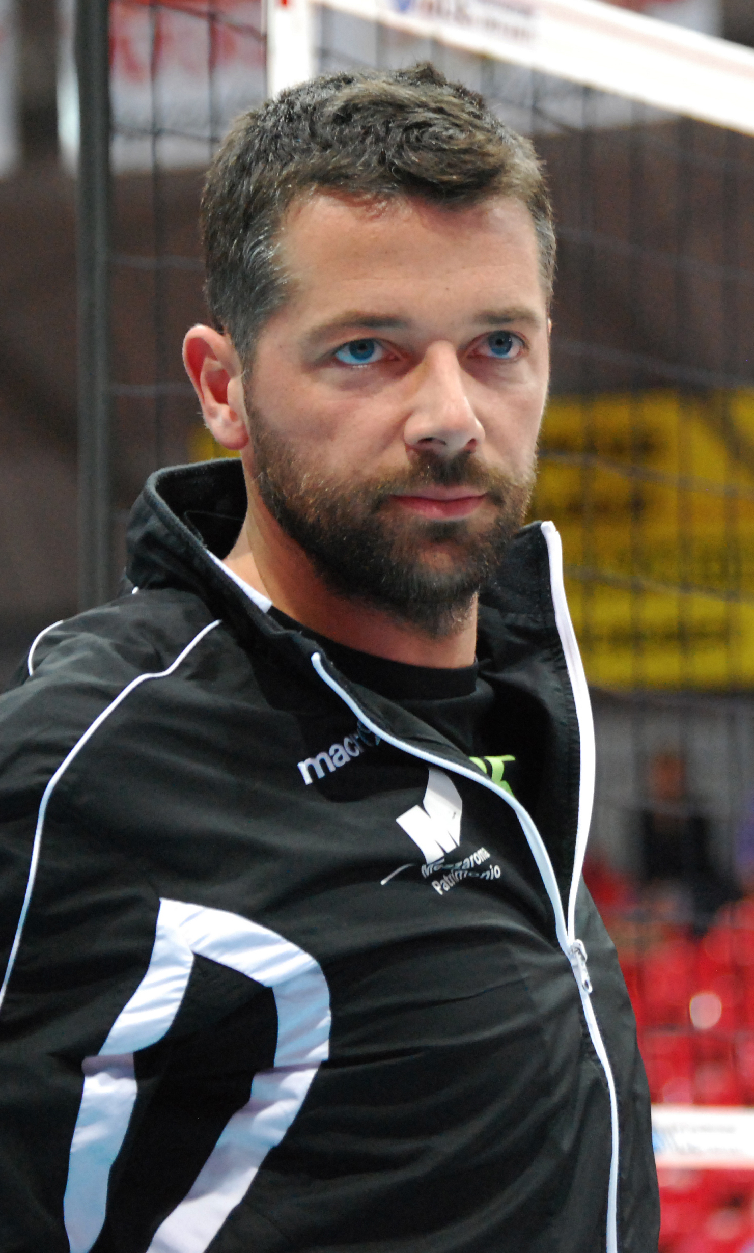 Piacenza-Roma